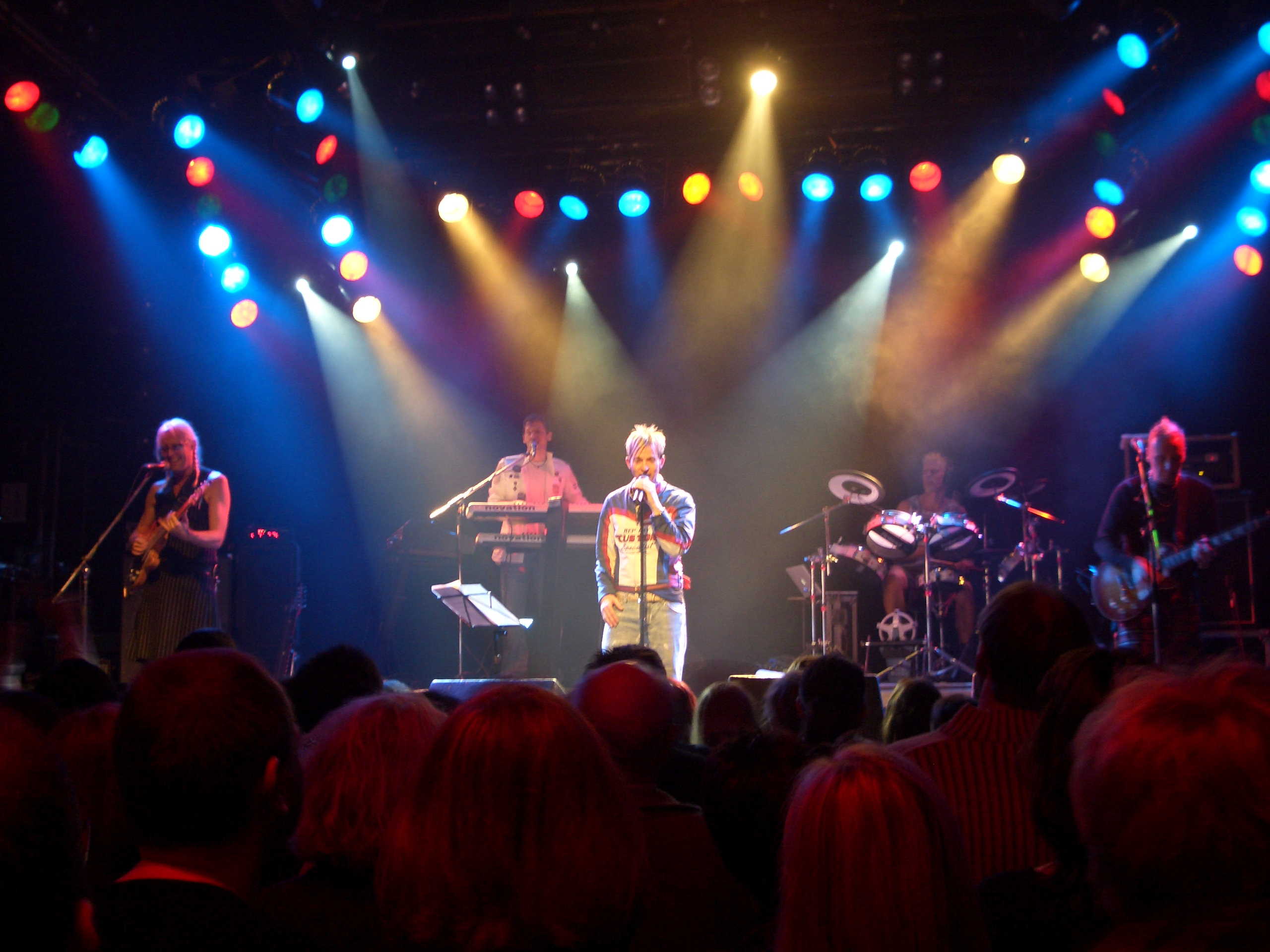 Kajagoogoo with Limahl Reunion-Tour 2008: "Zeche" in Bochum (Germany) from 09.11.2008